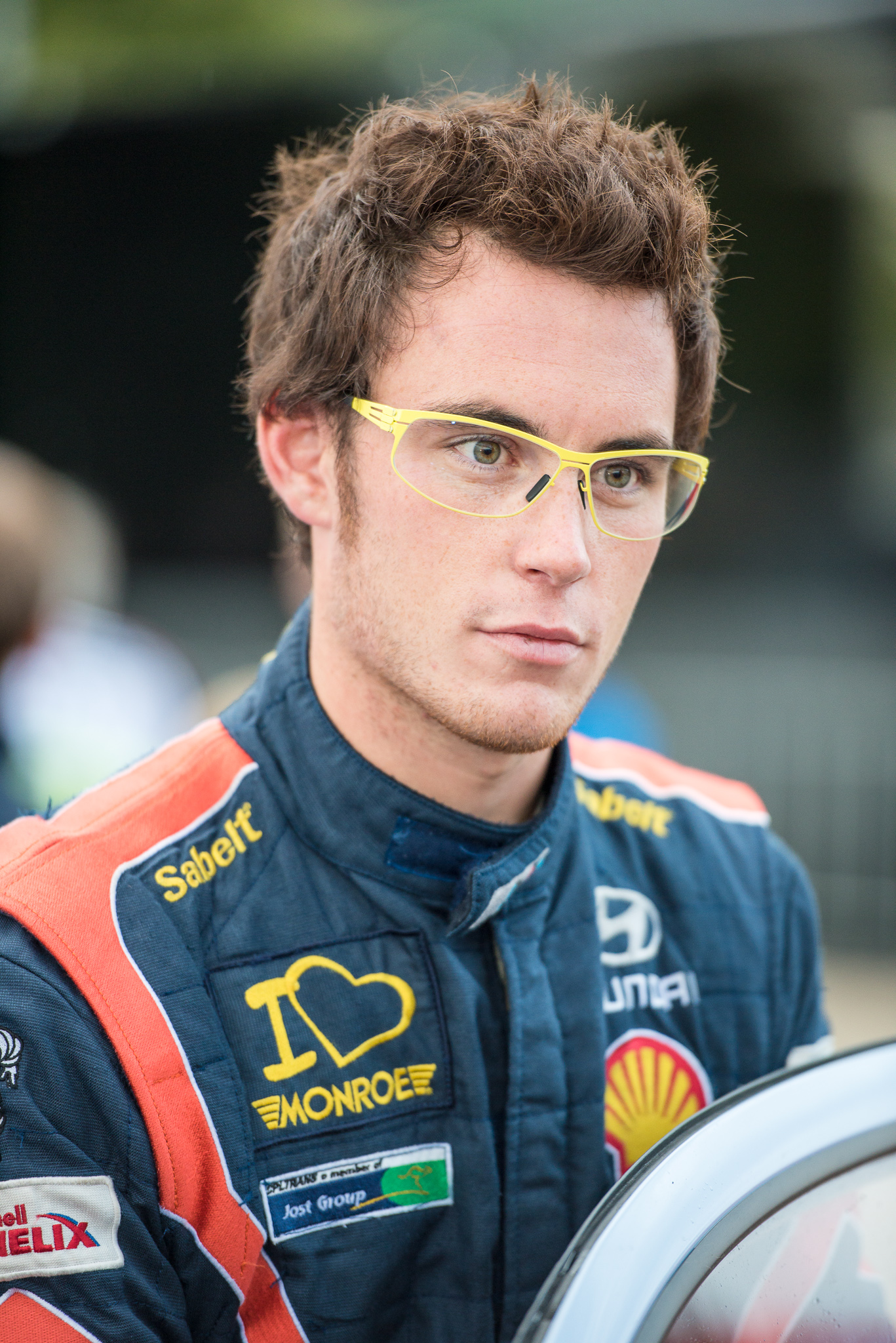 ADAC Rallye Deutschland 2014,FIA,FIA World Rally Championship,Hyundai Motorsport,Motorsport,Rally,Rallye,Thierry Neuville,WRC